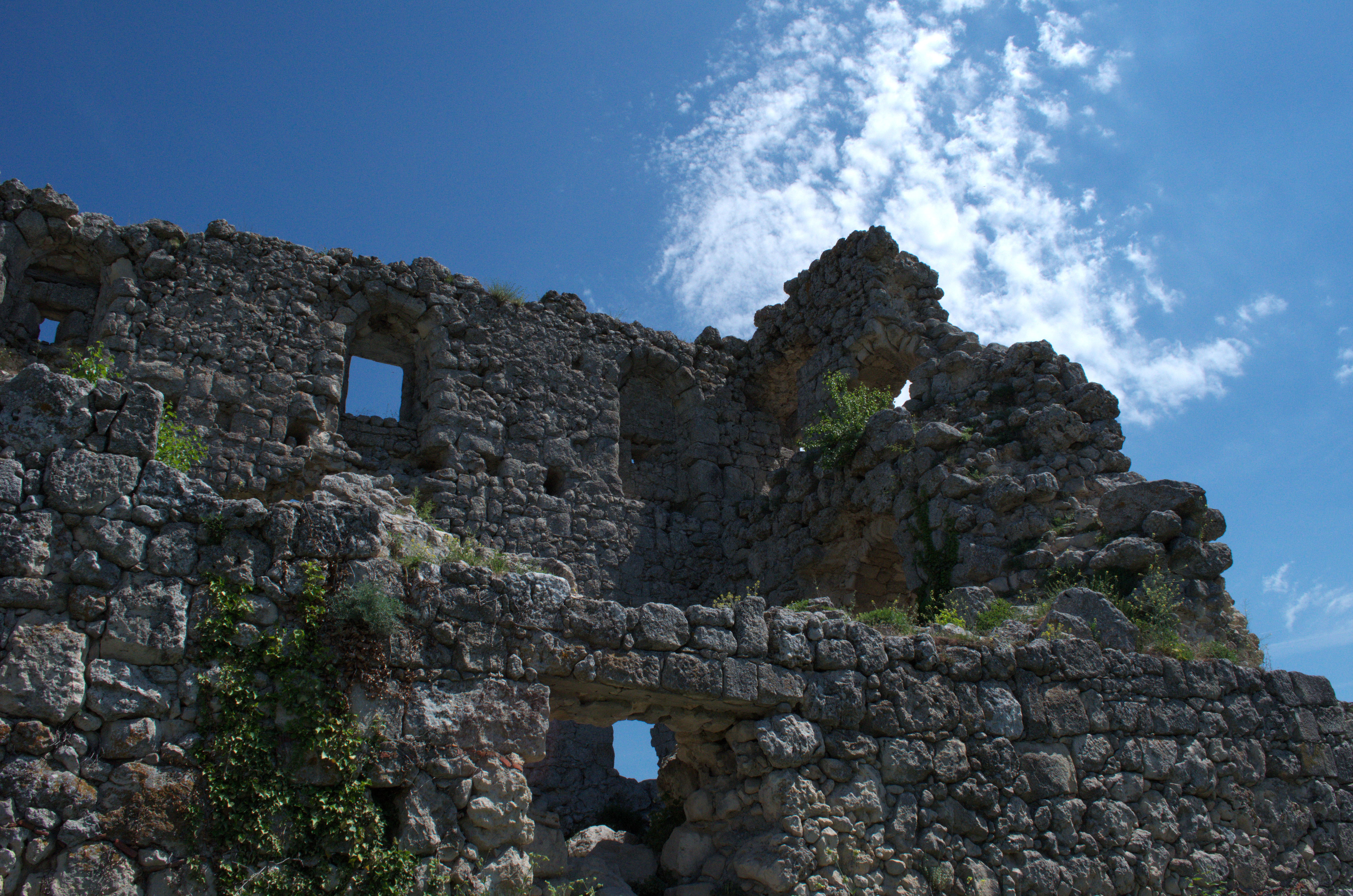 Mangup